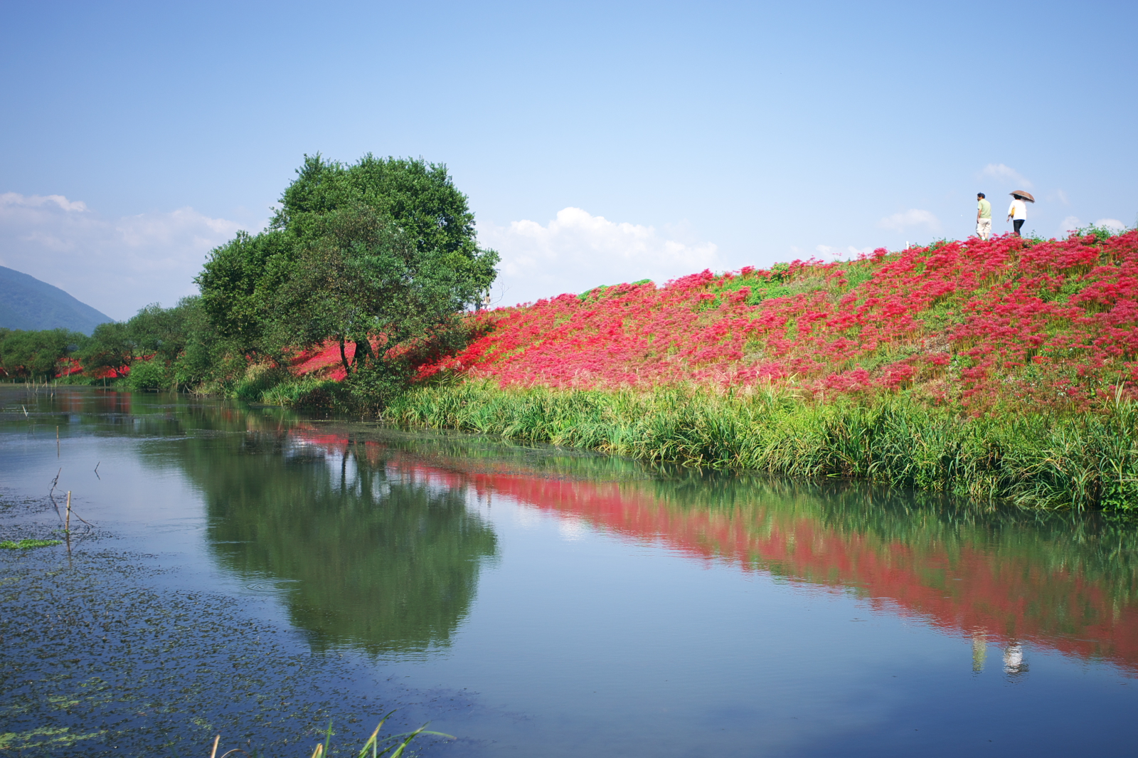 About 100,000 lycorises blooms, every the embankment along 3km of the Tsuyagawa river.